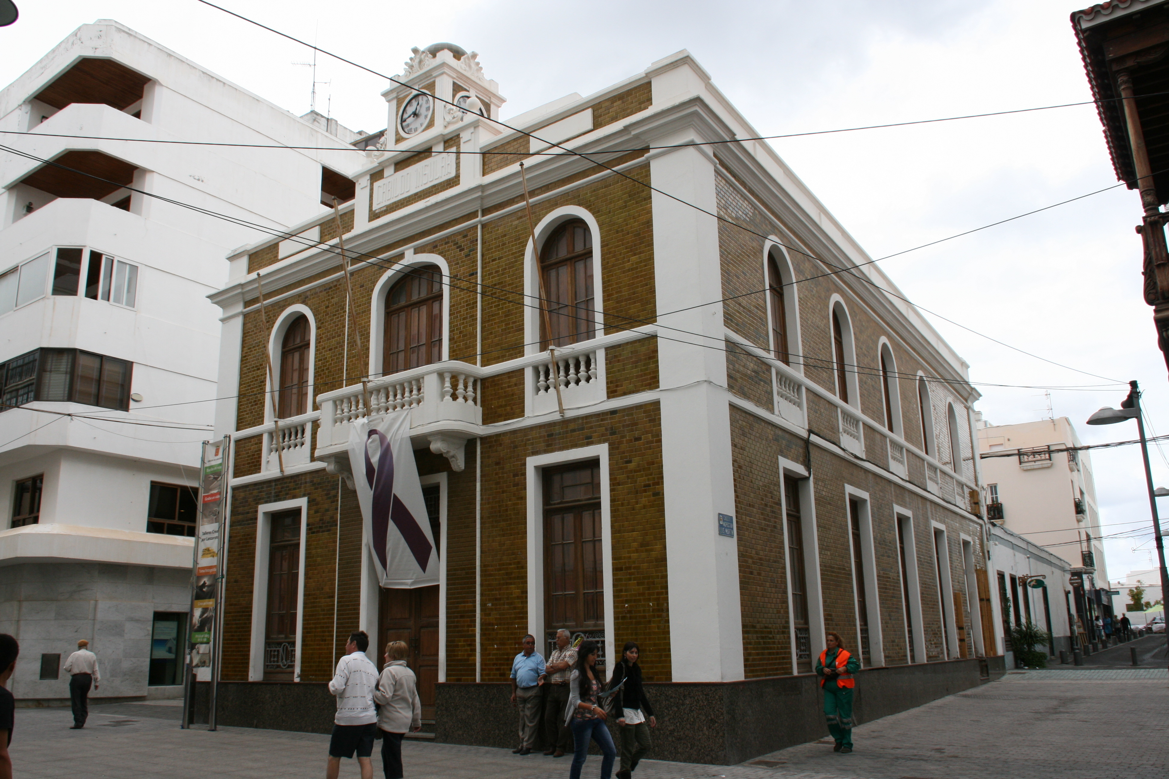 Cabildo Viejo, former island government, Calle Leon y Castillo in Arrecife, Lanzarote, Canary Islands